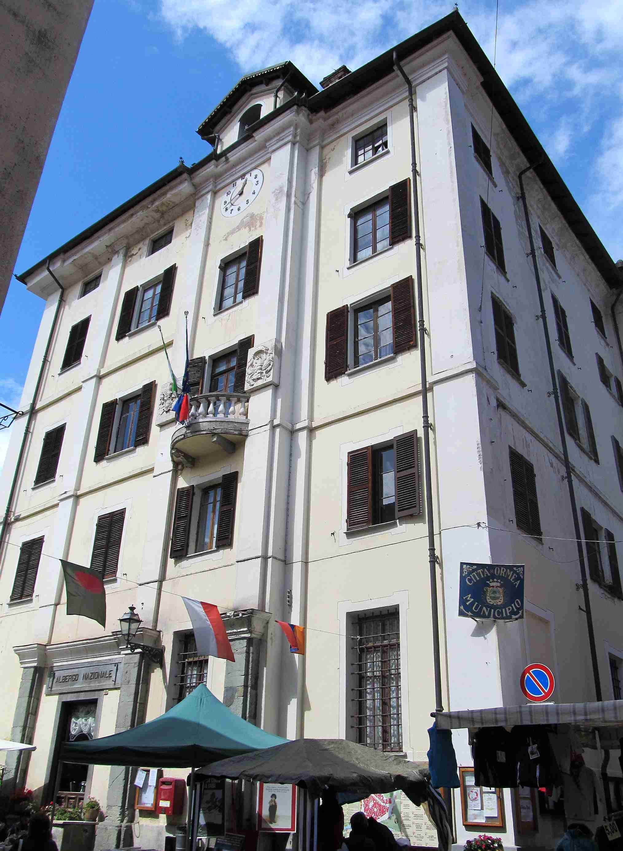 Ormea (CN, Italy): town hall